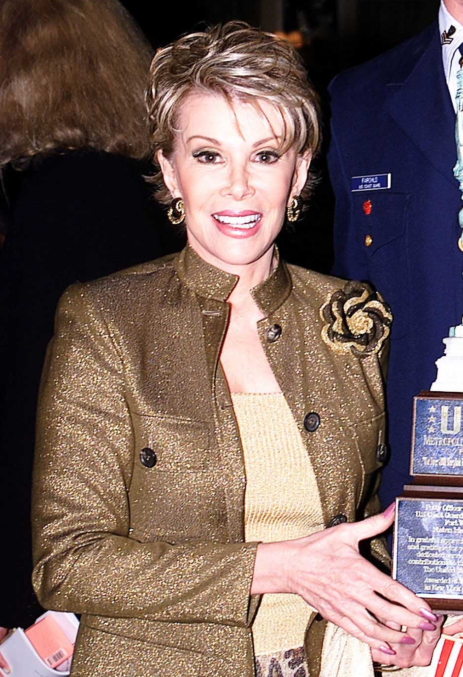 NEW YORK, New York (May 24)--USO Woman of the Year, Joan Rivers poses for a shot with USO Servicemember of the Year Petty Officer 1st Class Robert Fairchild and his award at the USO luncheon held at the Pierre Hotel here May 24.